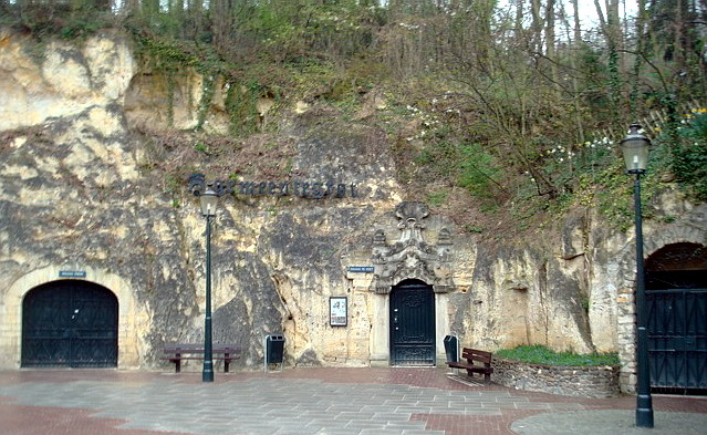 Valkenburg, the Netherlands. View of the entrance of Gemeentegrot, a limestone quarry at the foot of Cauberg, open for guided tours.